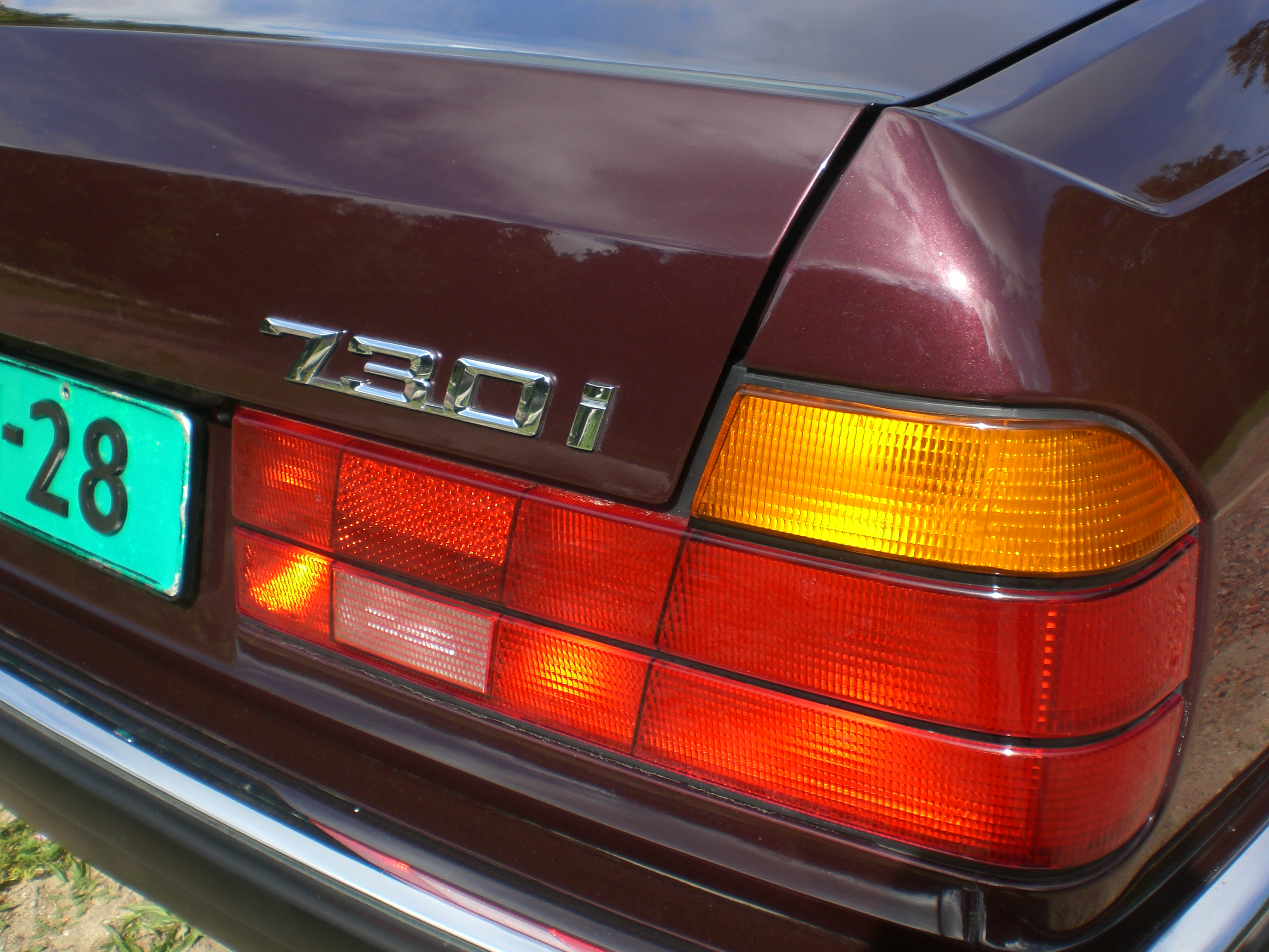 The distinctive L-shaped taillight of BMW's E32 7-series.